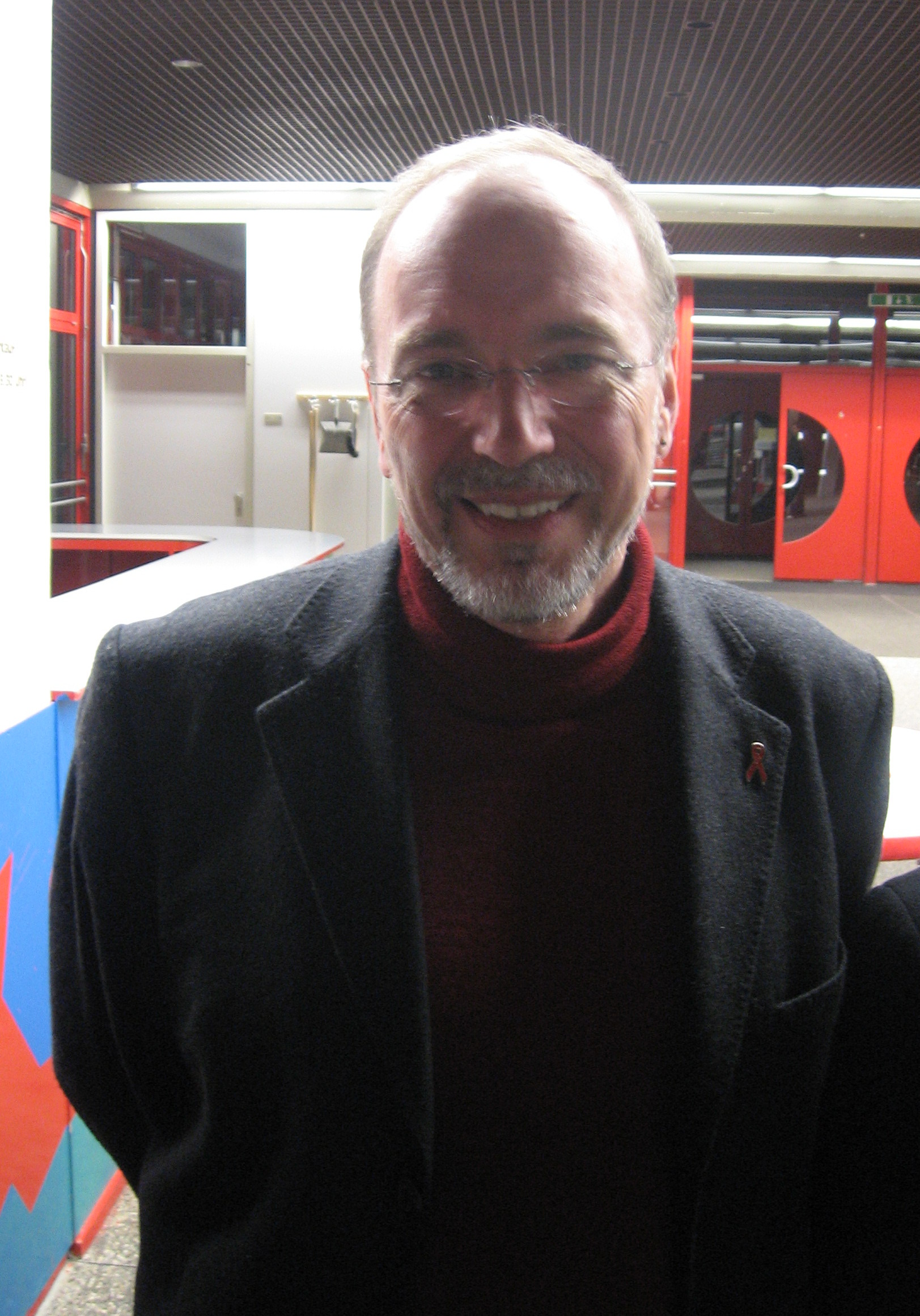 Gerhard Härle, a German Literature scientist